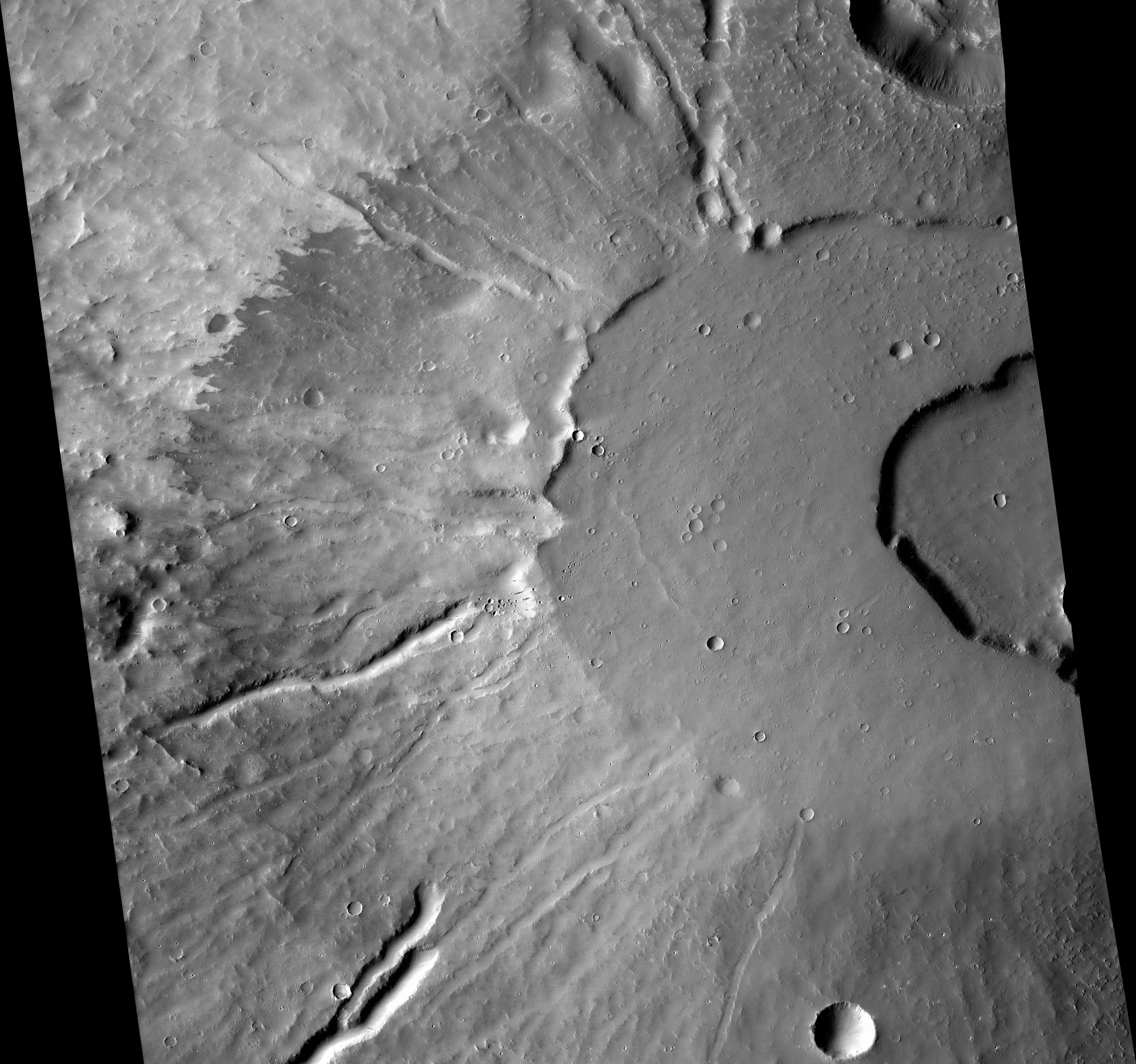 A part of the summit of Uranius Tholus on Mars imaged by the Context Camera aboard the Mars Reconnaissance Orbiter. Image resolution is around 5.75 meters/pixel.